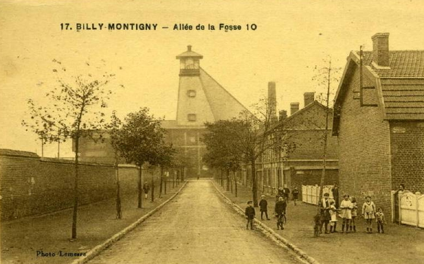 Billy-Montigny, France.